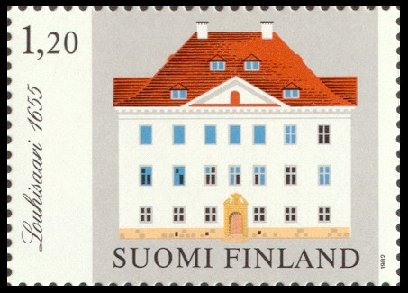 Postage stamp depicting the Finnish Louhisaari manor in Askainen